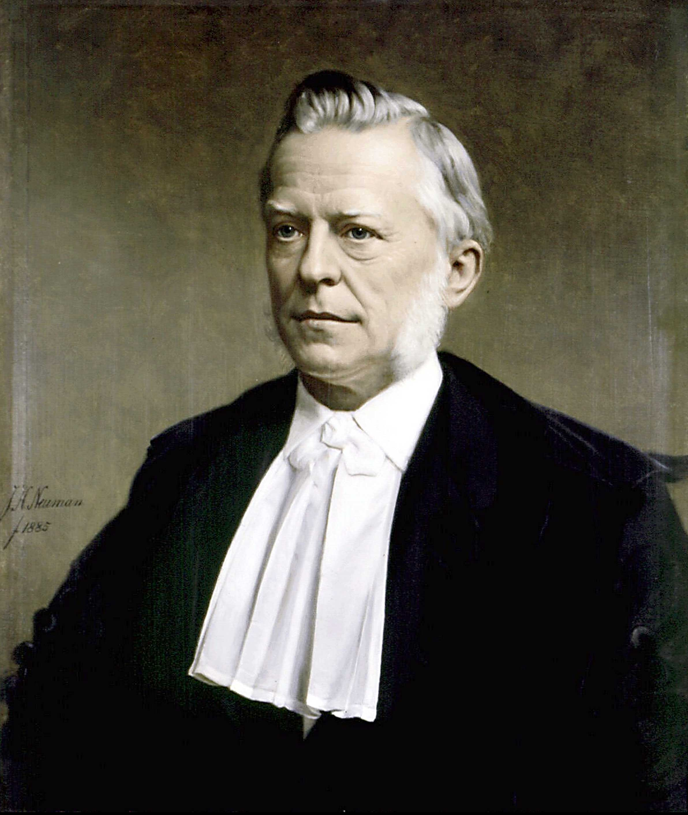 Jacobus Antonius Fruin (1829-1884), Dutch scholar (legal scholar)